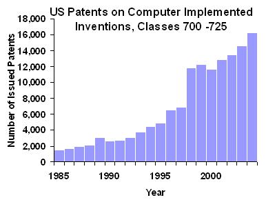 author: Mark Nowotarski Notes The 1998 State Street Bank decision may be partially responsible for the sudden jump in issued software patents in 1998.